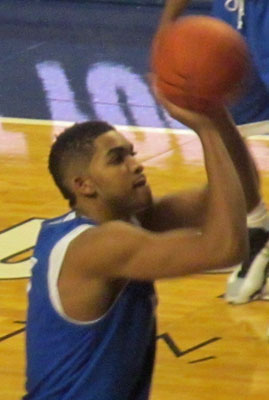 Kentucky Wildcats men's basketball player Derek Willis at the team's 2014 Blue-White scrimmage at Rupp Arena in Lexington, Kentucky